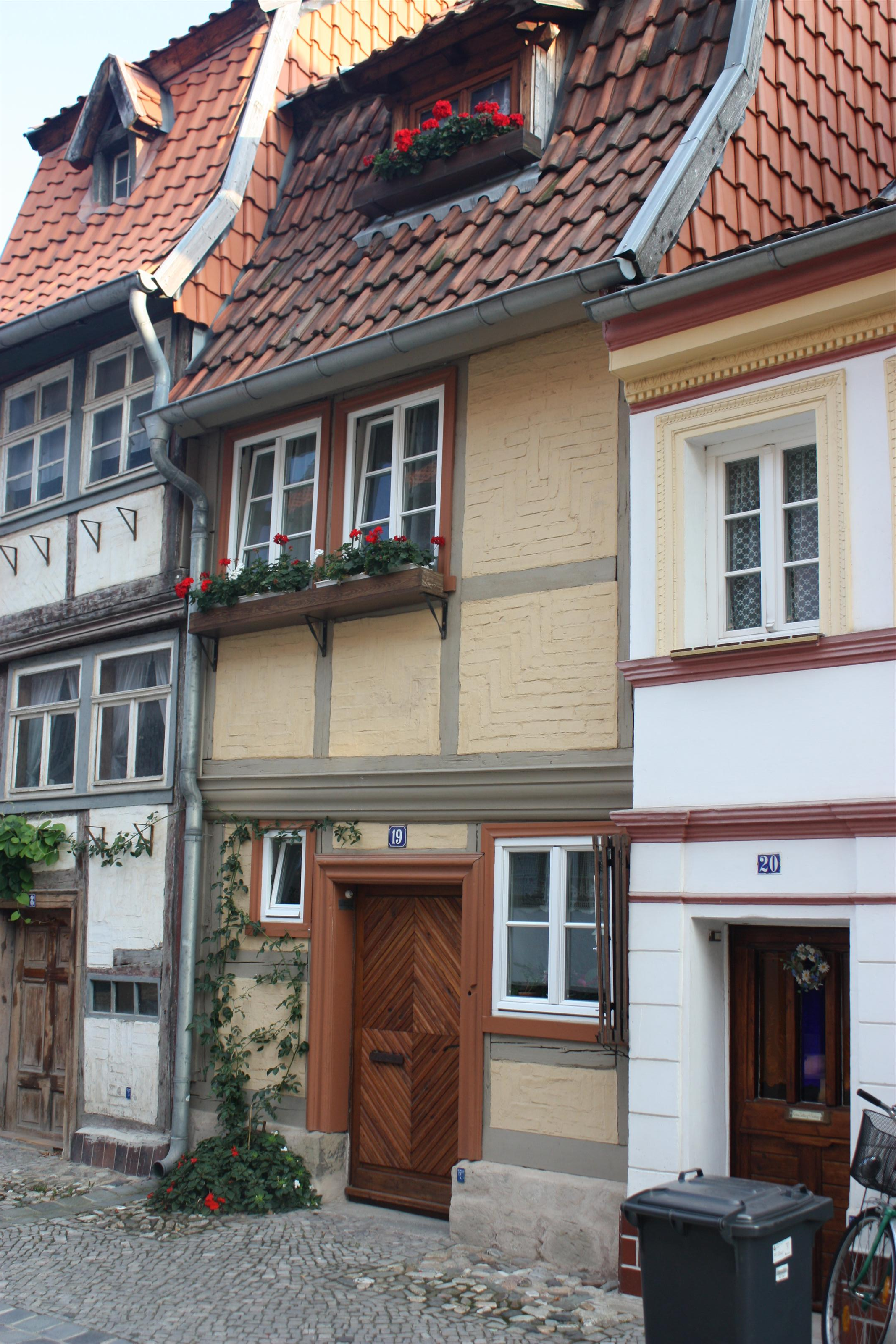 This is a photograph of an architectural monument.It is on the list of cultural monuments of Quedlinburg Wassertorstraße 19 (Quedlinburg)